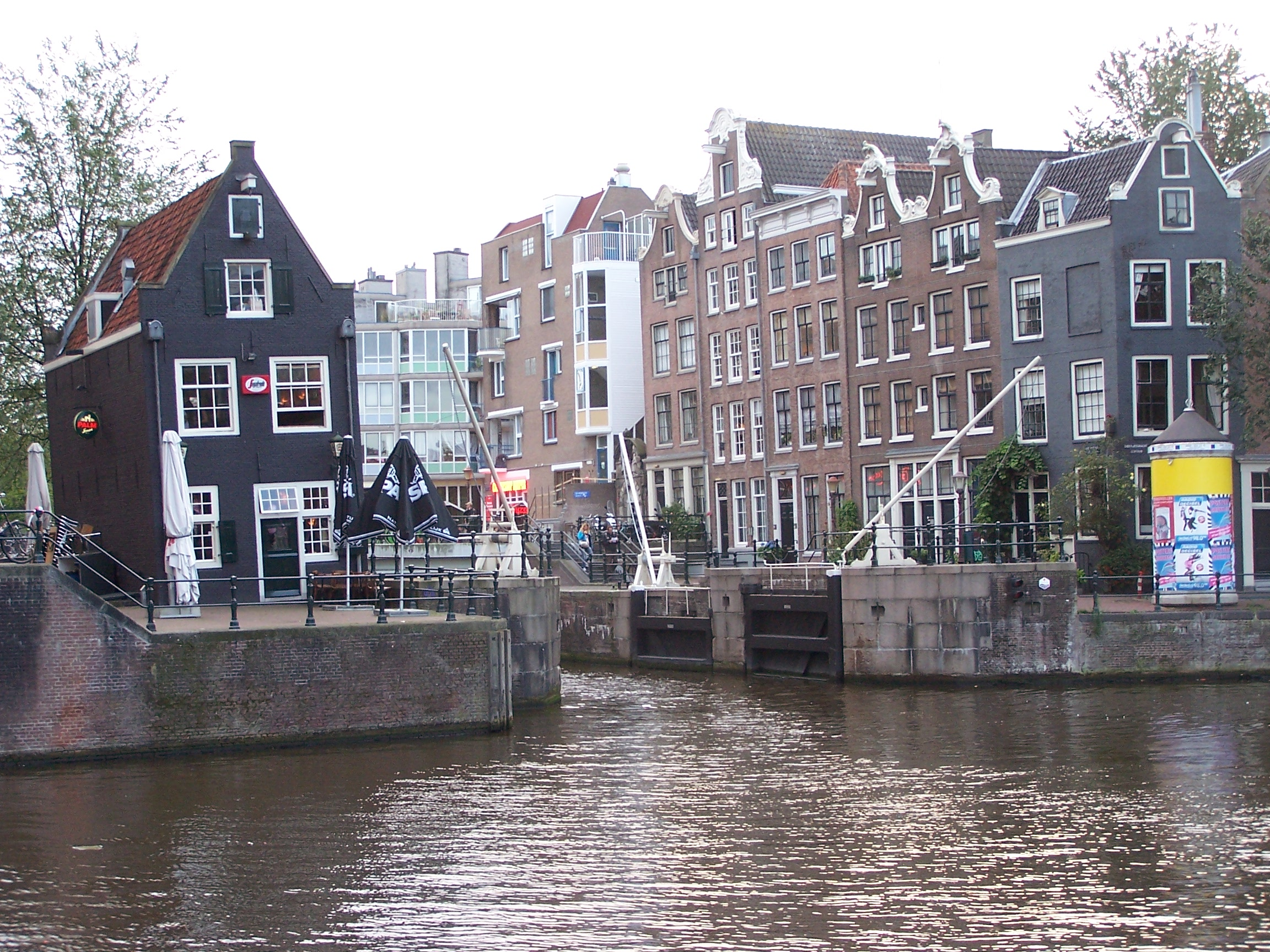 Jodenbreestraat 1 (“De Sluyswacht”) and Sint Antoniesluis 2–10